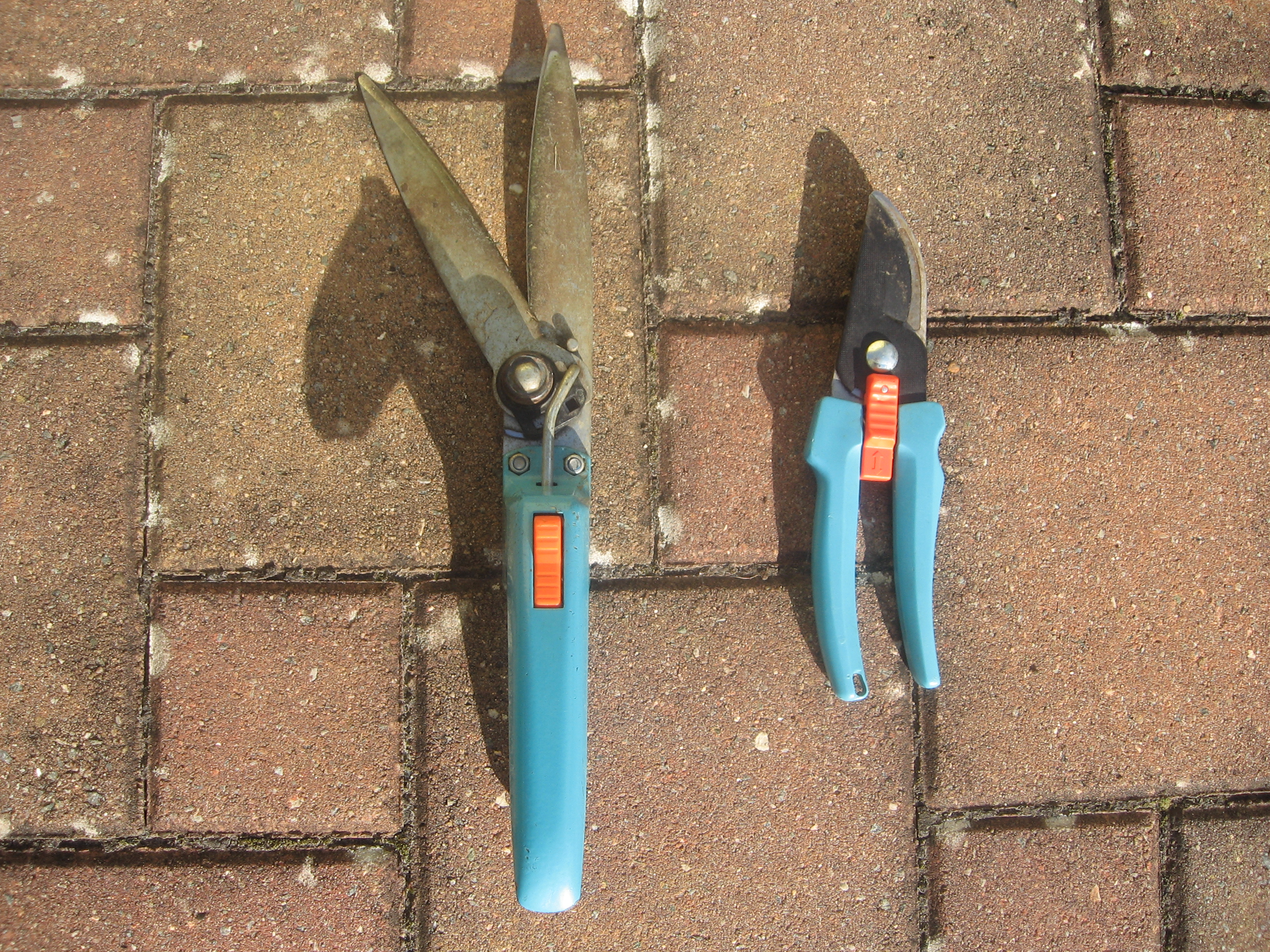 Grass clippers (left) and garden shears (right) by Gardena.